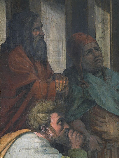 Portraits of Janus Lascaris (left) and pope Leo X - detail of Raphael's tapestry cartoon for Saint-Paul Preaching in Athens.